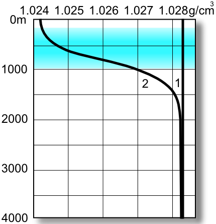 Deep Sea's Density-Depth graph (No text)